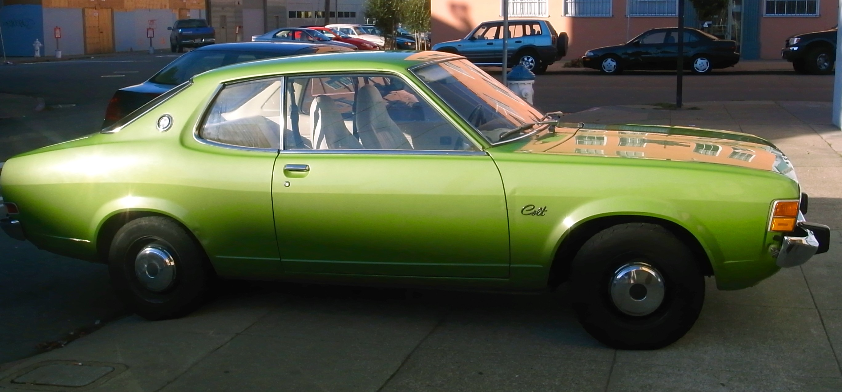 Second generation (1974-77) Dodge Colt coupé.